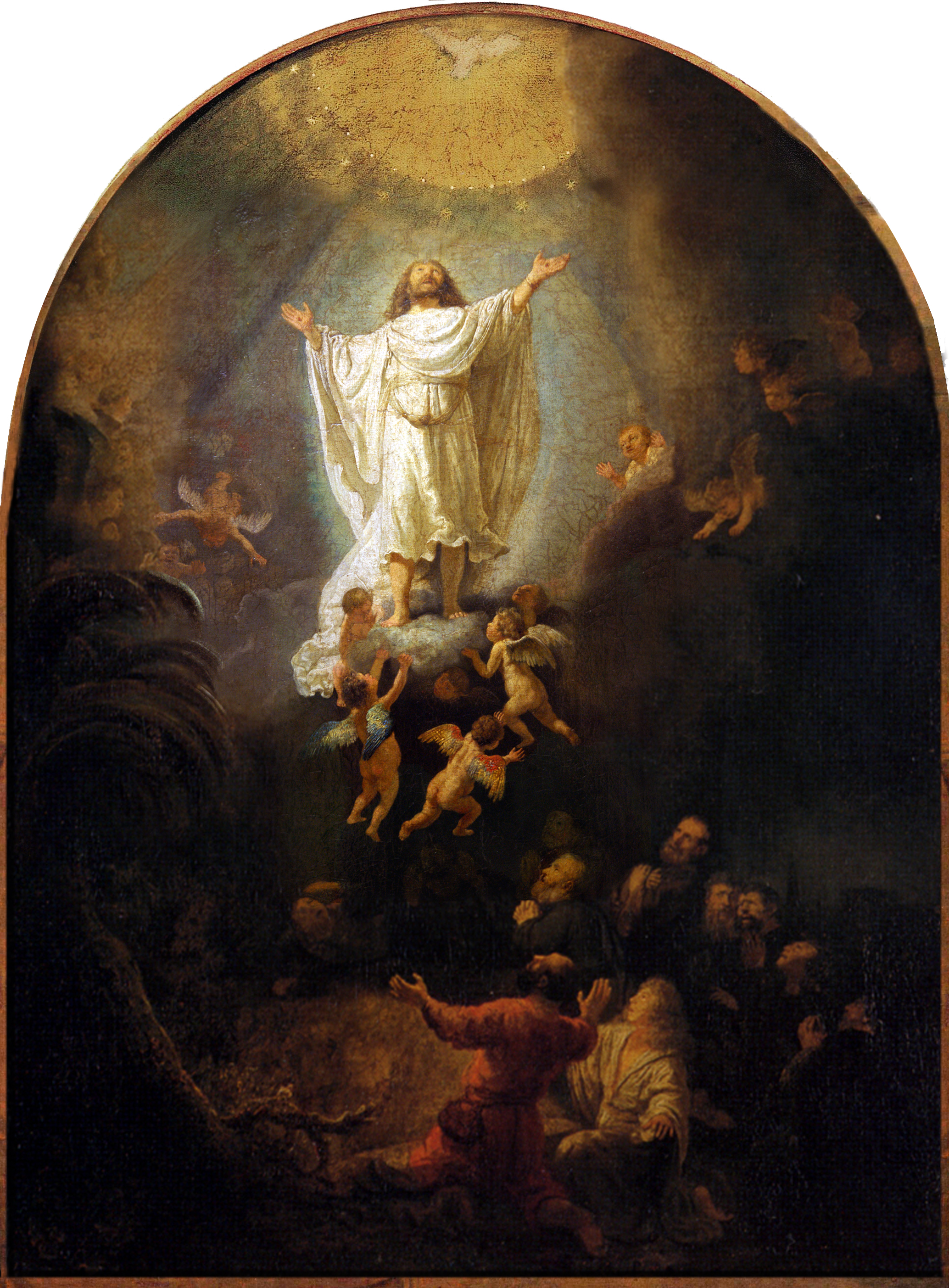 Part of Rembrandt's Passion Cycle for Frederick Henry, Prince of Orange